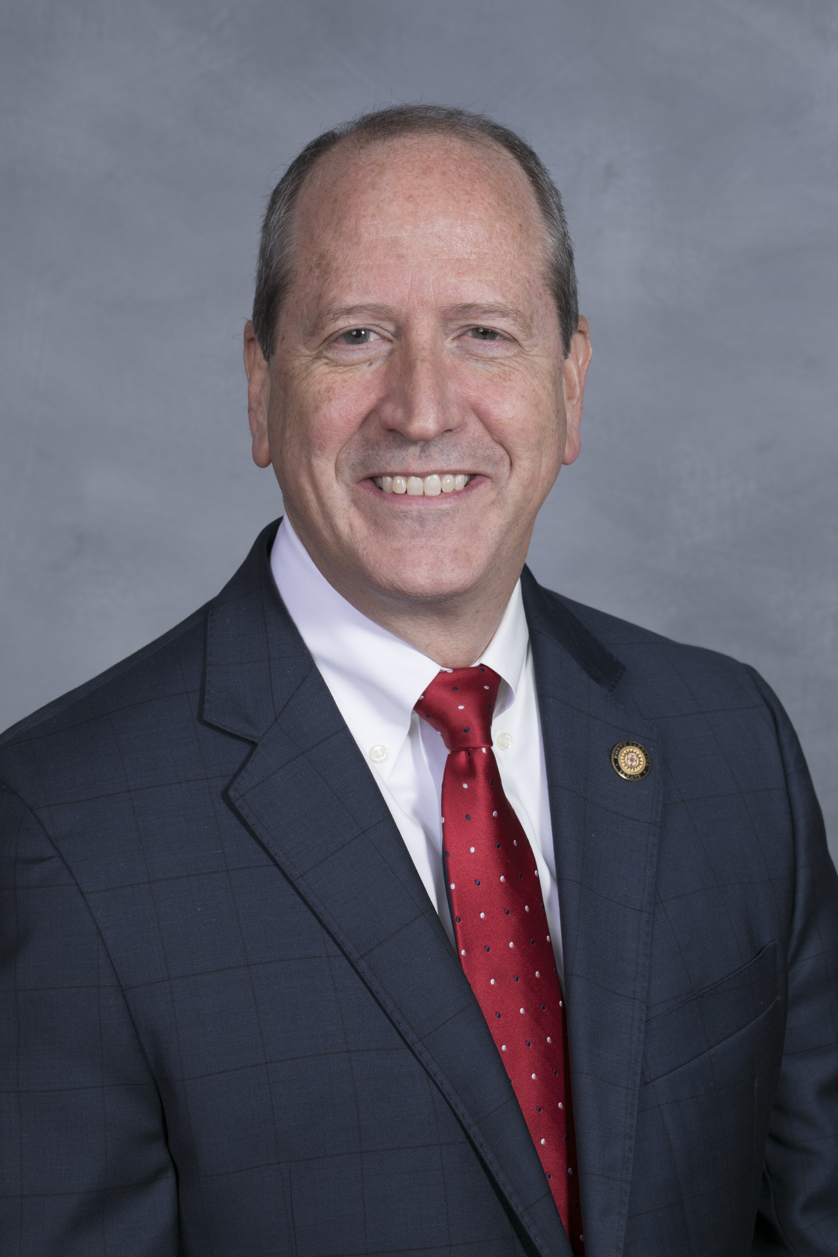 North Carolina State Sen. Dan Bishop